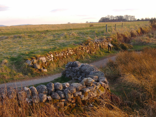 The Well of the Dead, Culloden Moor The commander of the Clan Chattan regiment, Alasdair MacGillivray of Dunmaglass, and many other Jacobite soldiers died here after engaging the left wing of the Hanoverian army.